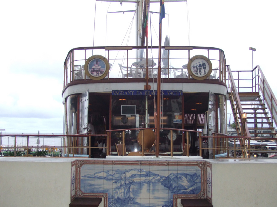 Vagrant, ex-Beatles yatch, now in Funchal serving as bar